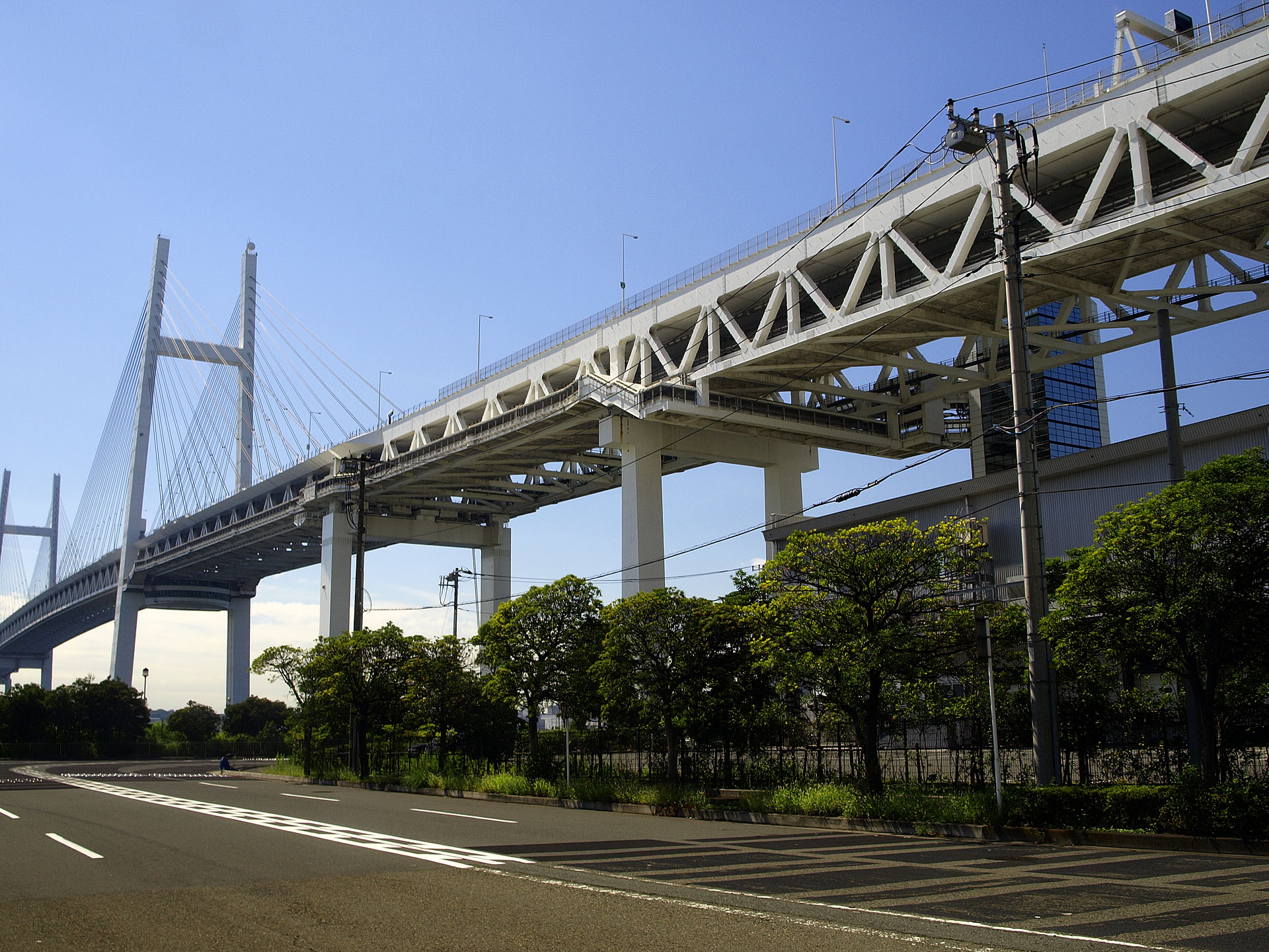 The Yokohama Sky Walk - a sightseeing facility on the Yokohama Bay Bridge - shut down at 26 Sep 2010.